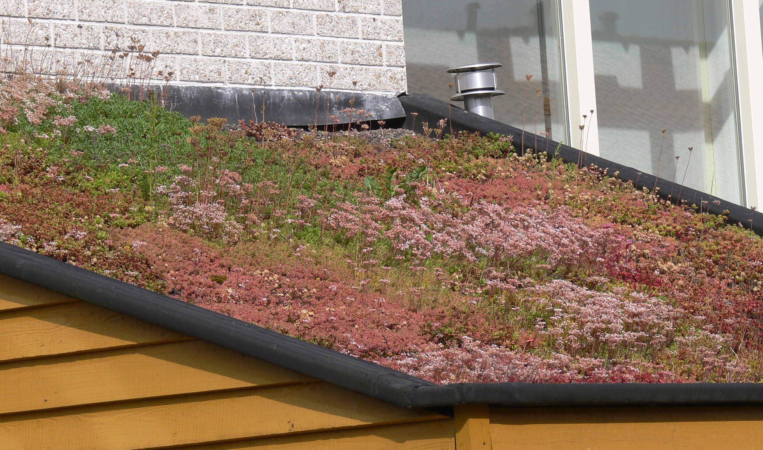 Green roof in E.V.A. Lanxmeer district (a "green distric" named Lanxmeer, built at Culemborg, The Netherlands), wich is a recent (1994-2009) district (semi-public eco-building) of approximately 250 ecological houses, several offices and a urban farm. The project is based on "Sustainable Implant" with a spatial combinaison of natural systems, technical approach of integrated waste (wastewater) / energy system and écological and social purposes, for an urban neighborhood. The district is in an ecologically sensitive area (former drinking waterextraction and retention area). The conception of this district is based on permaculture, and organic design, a small biogas installation (able to treate black water and organic waste and garden & park waste), a combined Heat Power. Some houses are in closed greenhouse. A semi-public building (the ‘EVA Centre) should yet be made, based on the Living Machine concept.